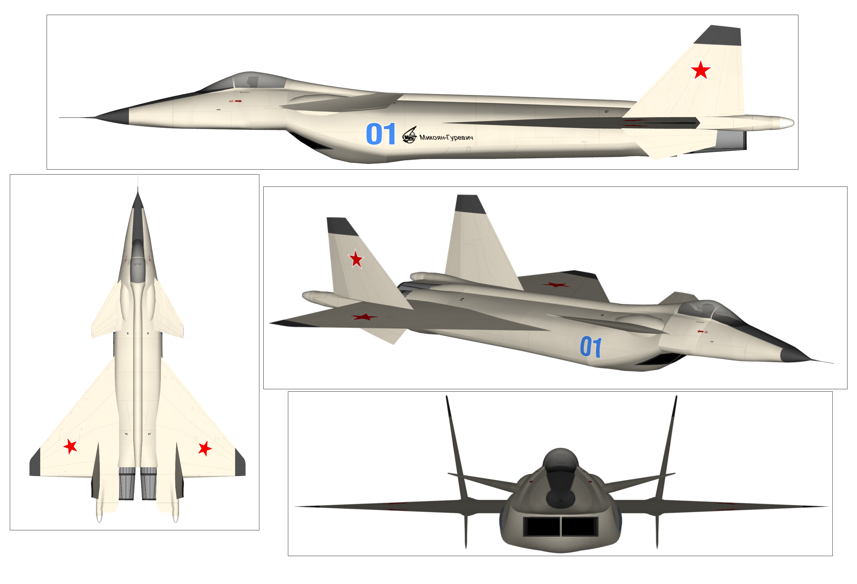 Mikoyan Project 1.44 three view + 3D view